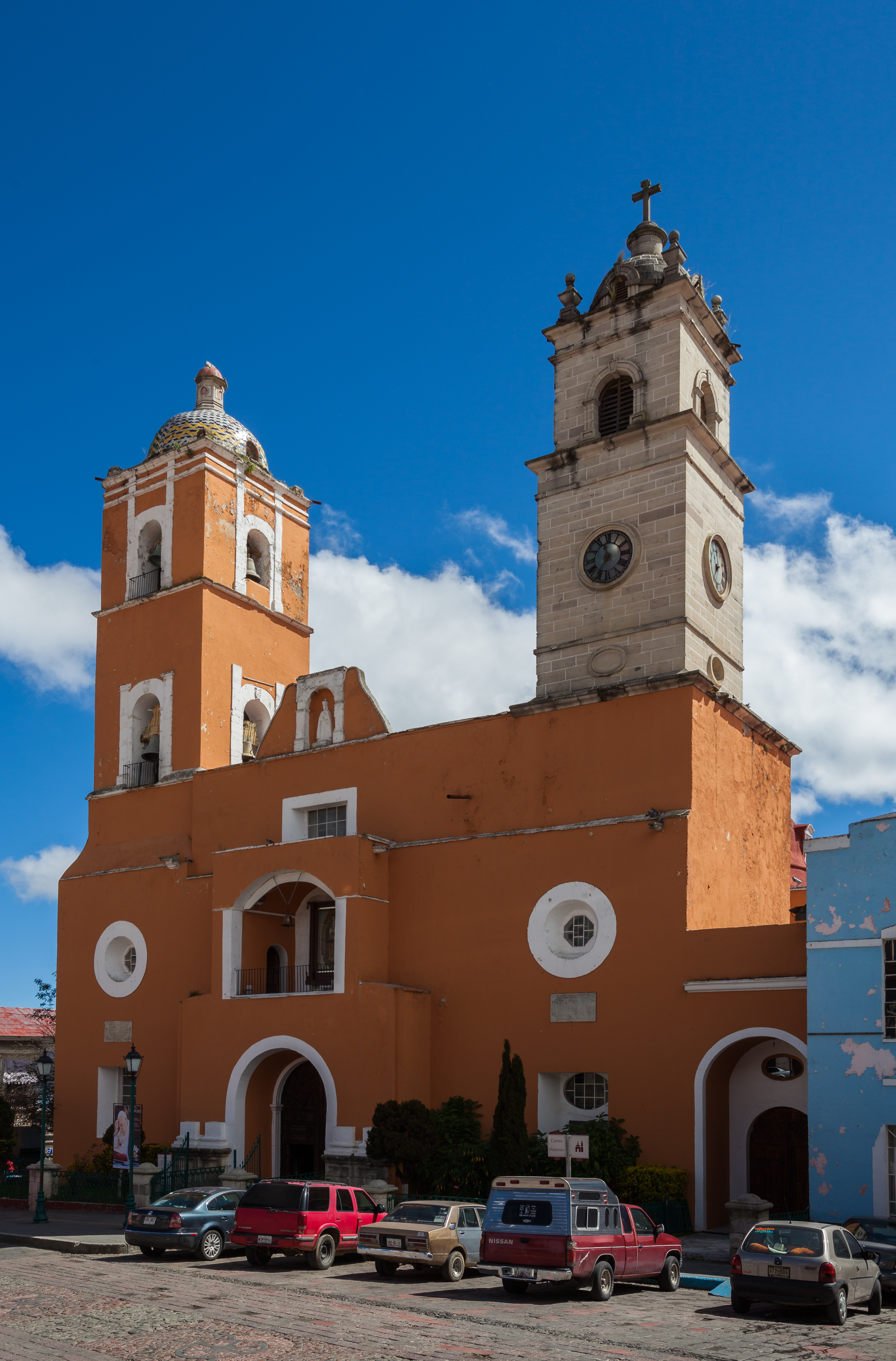 Church of Our Lady of the Ascension, Real del Monte, Hidalgo, Mexico